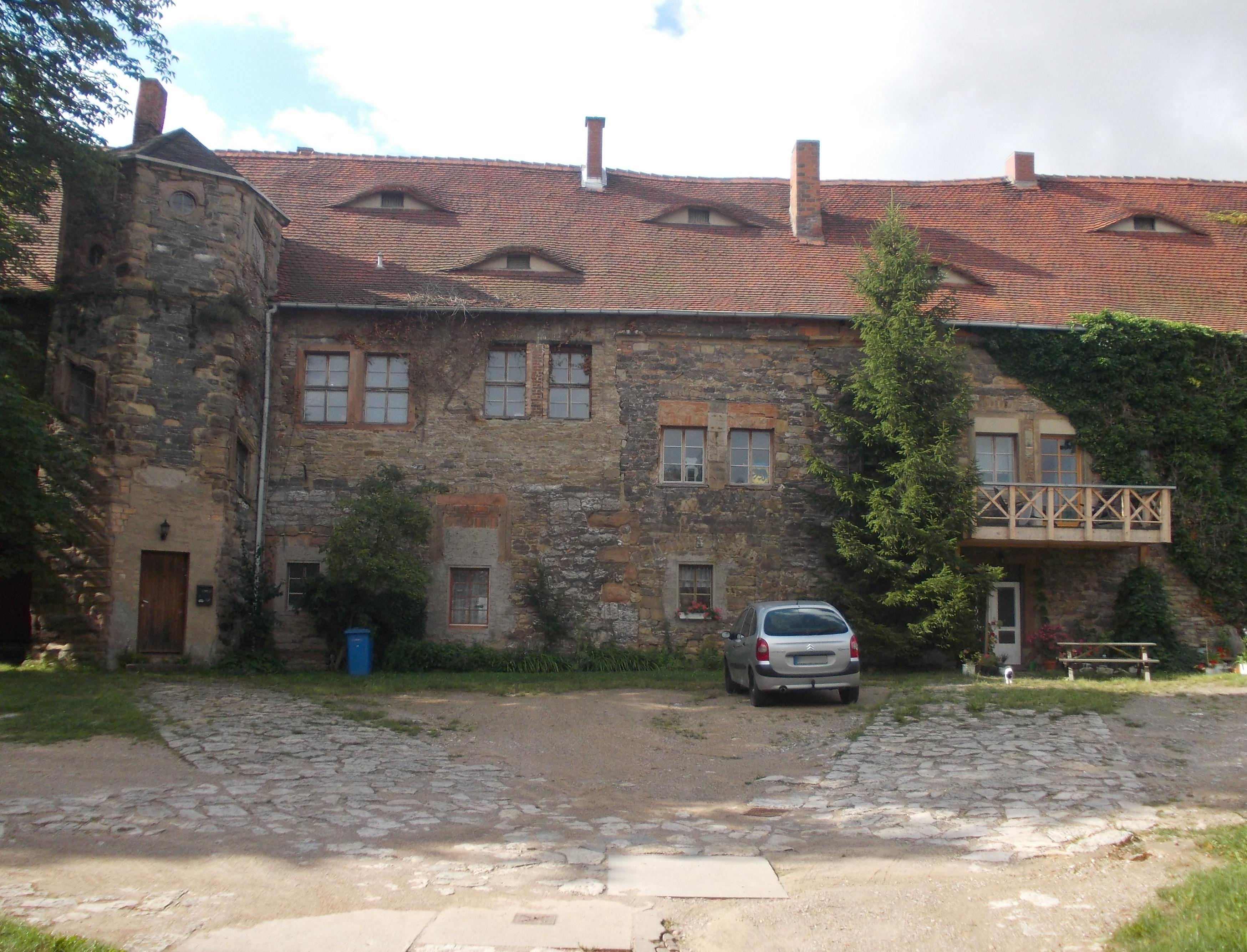 Wendelstein Castle (Kaiserpfalz, district: Burgenlandkreis, Saxony-Anhalt)